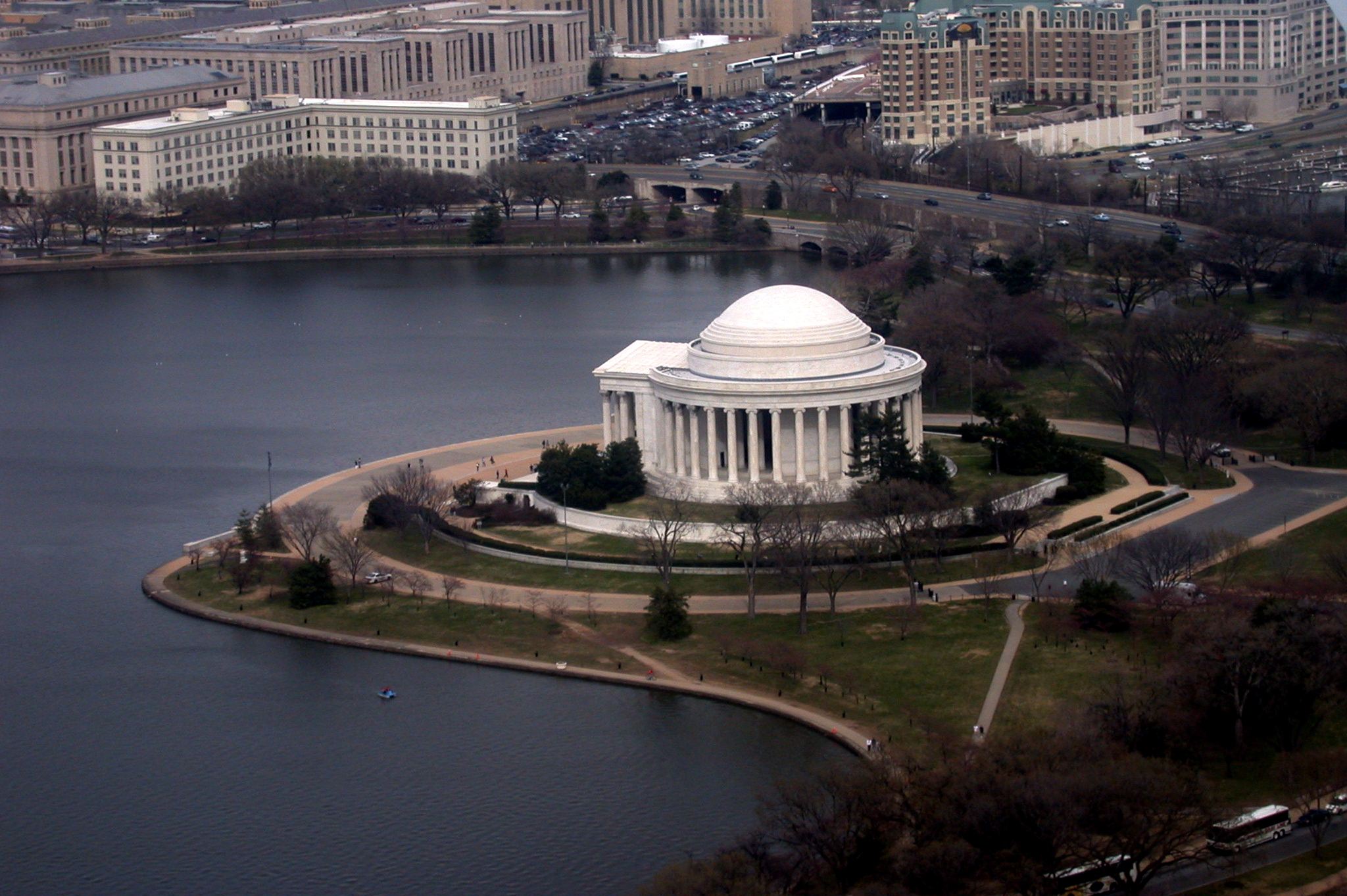 Aerial photograph of the Jefferson Memorial, taken from an airplane coming into Washington National Airport.